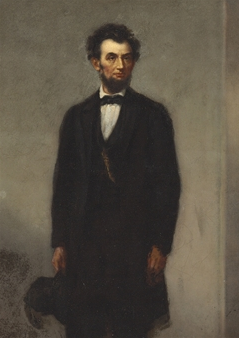 Portrait of Abraham Lincoln by Joseph Alexander Ames (1816-1872), 1864-1865